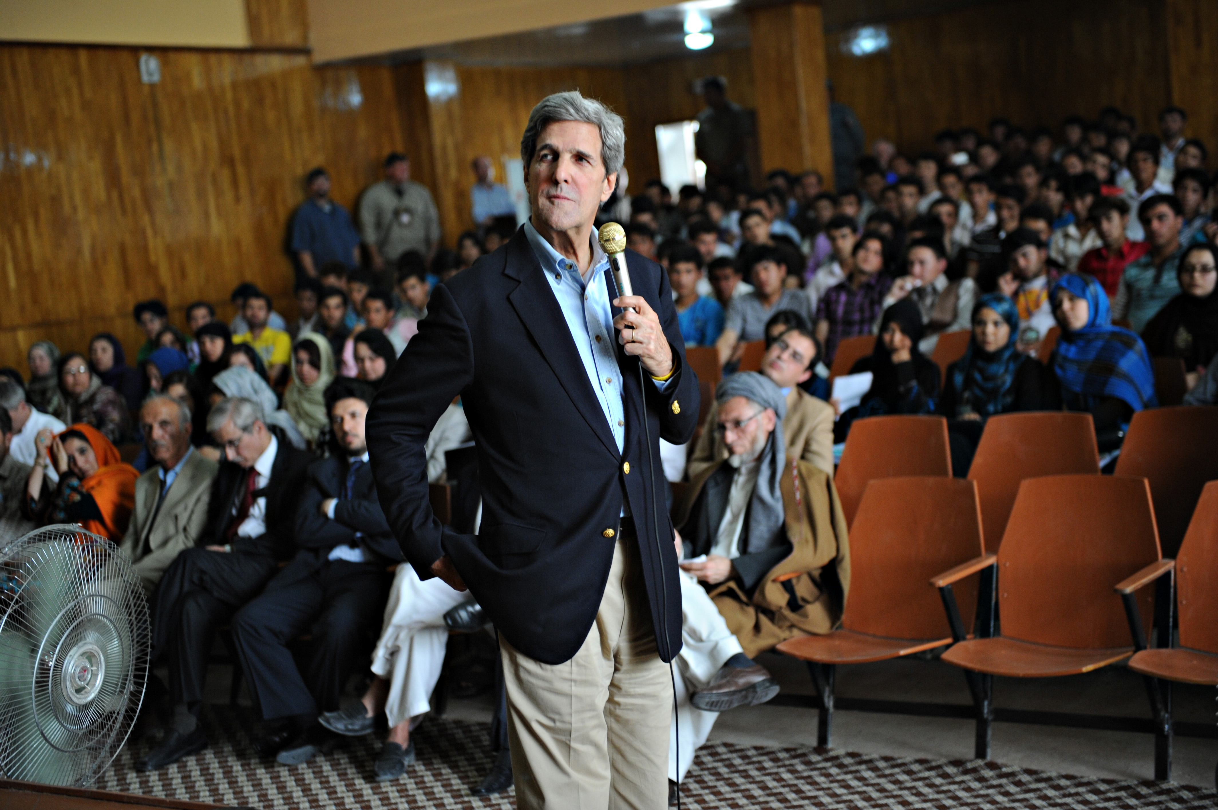 Senator John Kerry (D-MA) answers questions from students during an open forum at Balkh University in Mazar-i-Sharif, Afghanistan.